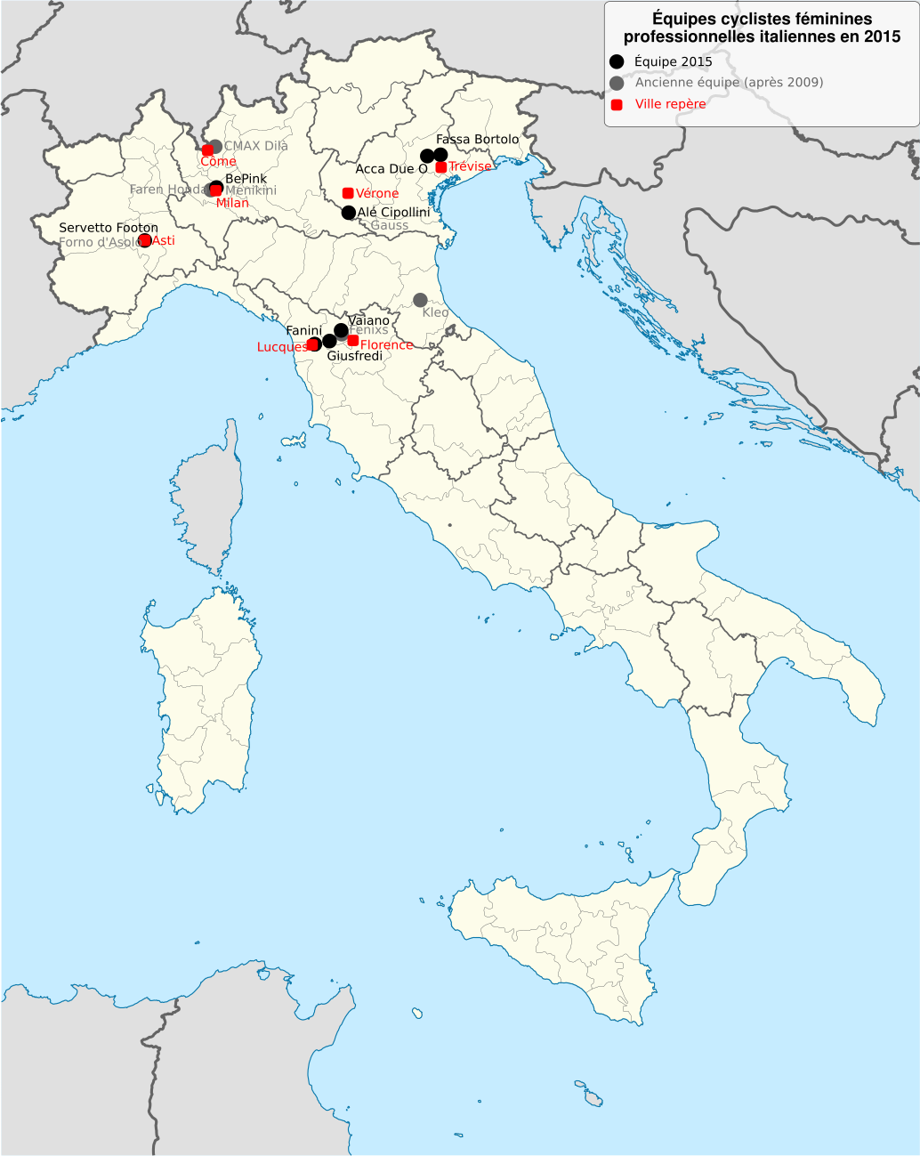 Location of the headquarters of the different women cycling teams in Italia. The names are abbreviated but should be clear.